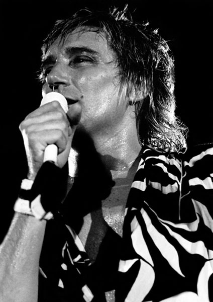 Rod Stewart in concert in Belfast, Ireland